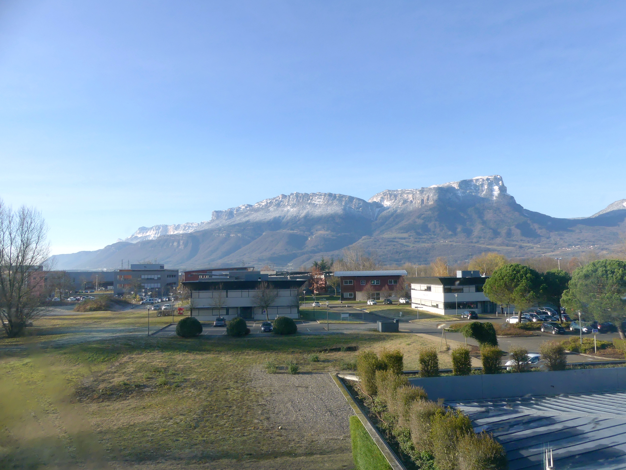 Sight, in winter from La Pyramide building, of Alpespace business park, in Savoie, France. At the background can be seen the partly snow-covered Chartreuse mountain range.